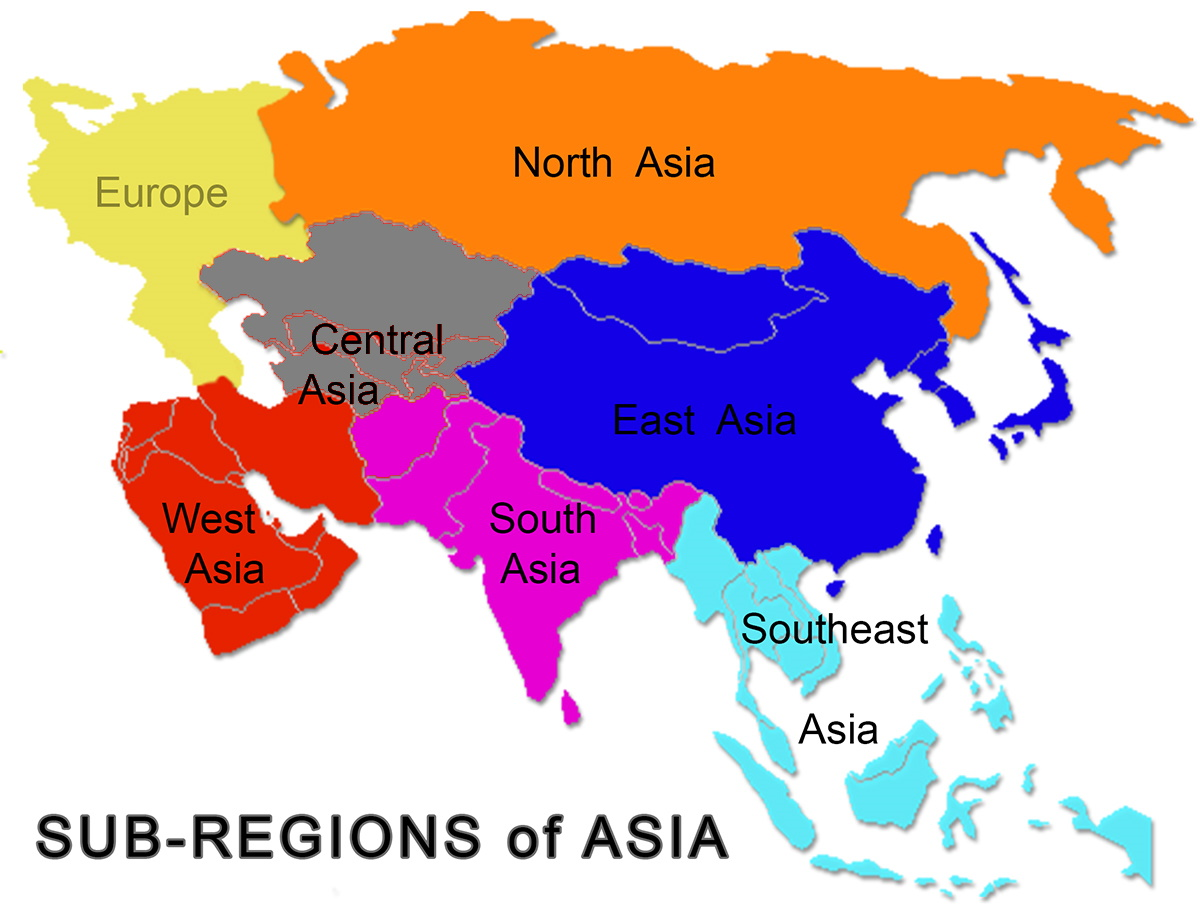 a map that highlights the various sub-regions of Asia